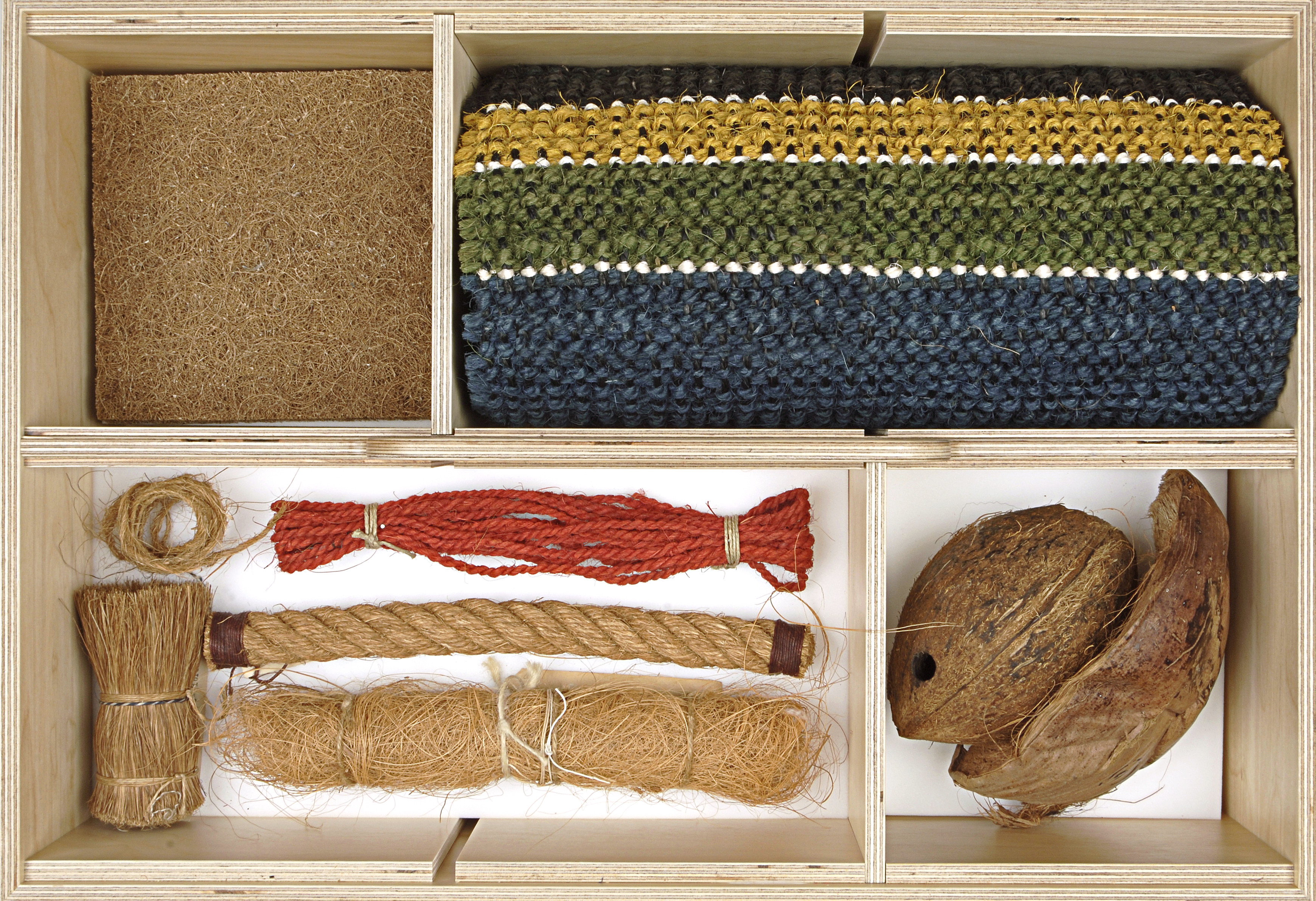 Coir / Coconut fiber - Tray and samples of the textile cabinet in the Textielmuseum in Tilburg. Cabinet interior made by Simone de Waart, Material Sense.